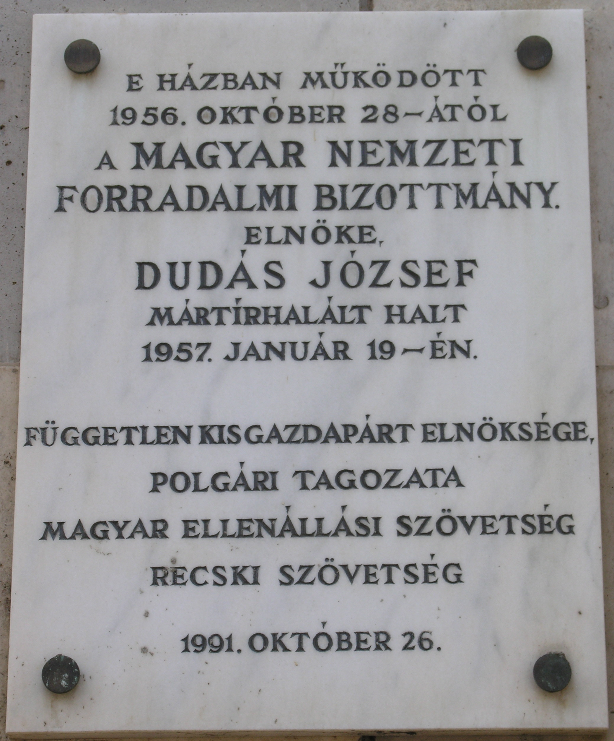 Commemorative plaque of József Dudás (Budapest District II, Frankel Leó Street No 38-40)